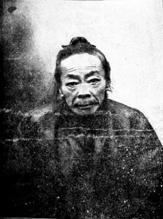 Song Yuren